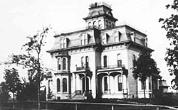 The Ramsdell residence c. 1900 — in Manistee, lower Michigan. Residence of local lawyer and philanthropist Thomas Jefferson Ramsdell (1833–1917). The 1860s Second Empire style house was built of pressed Milwaukee brick and had a mansard roof. It was lit with gas. The house was burned down in the 1930s by one of his sons for the insurance money.